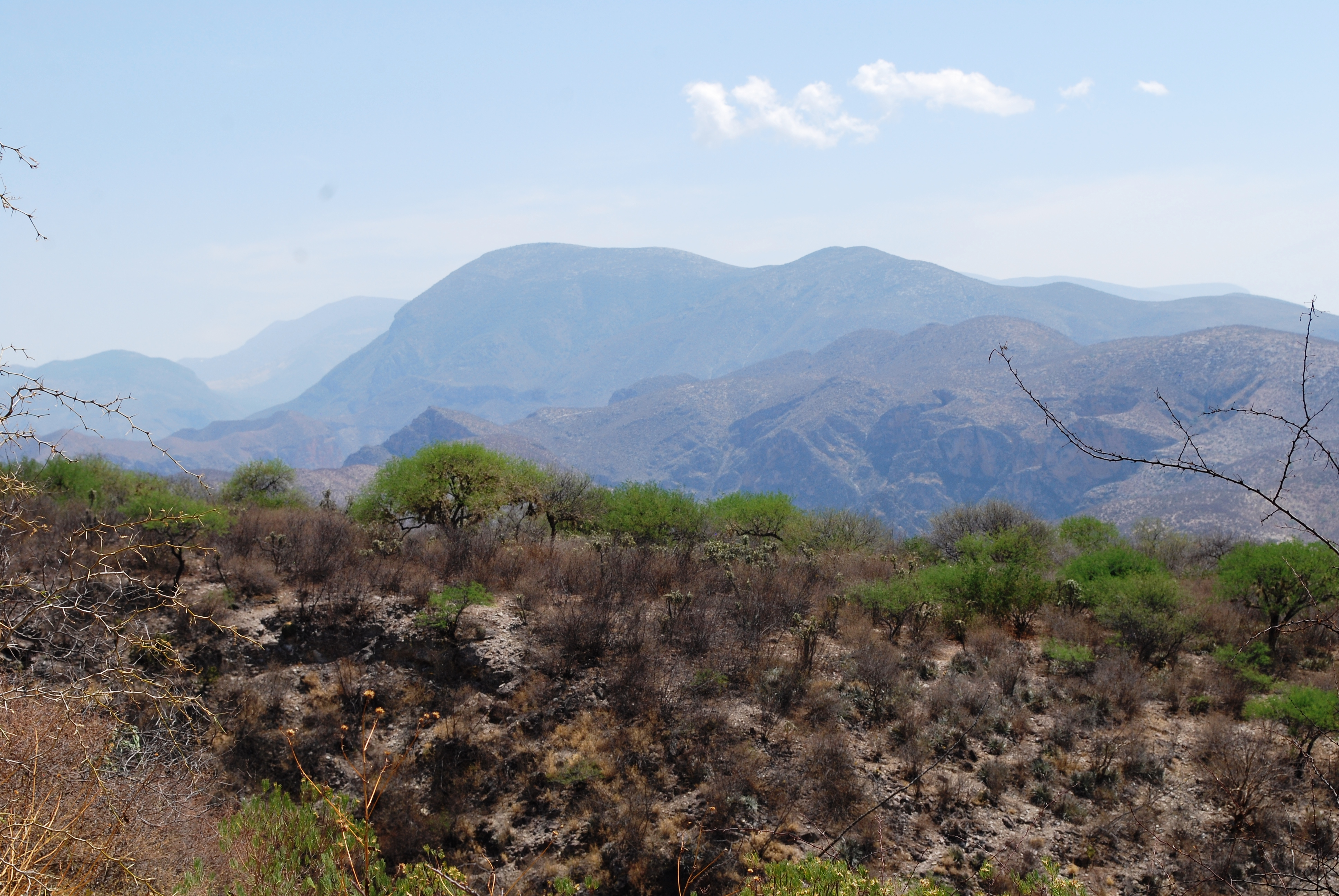 Desert and mountains just outside Peñamiller, Querétaro, Mexico